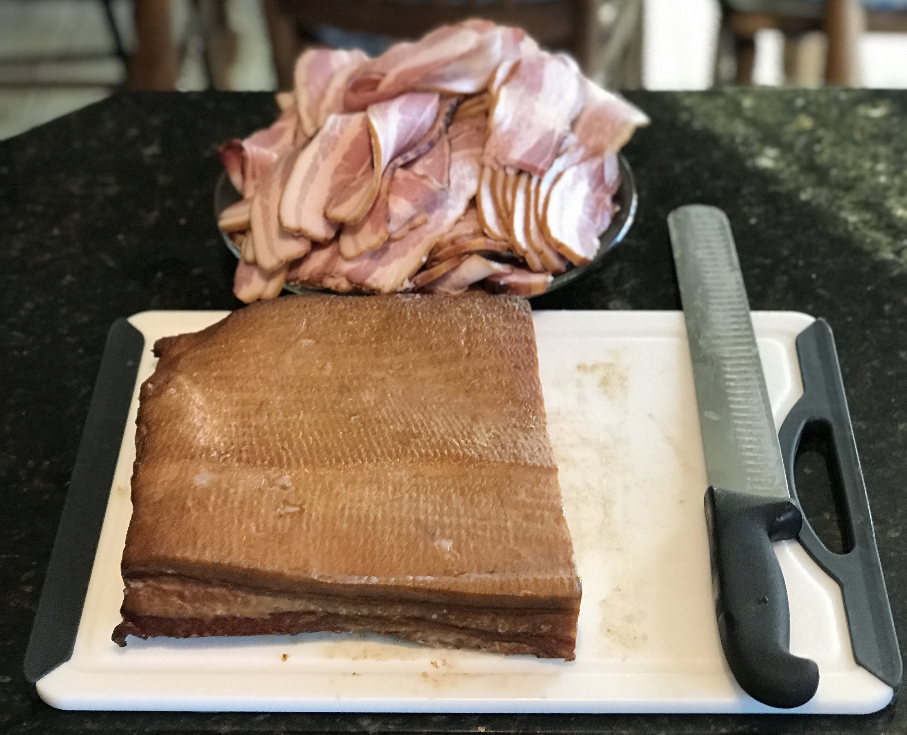 Home cured and smoked American bacon